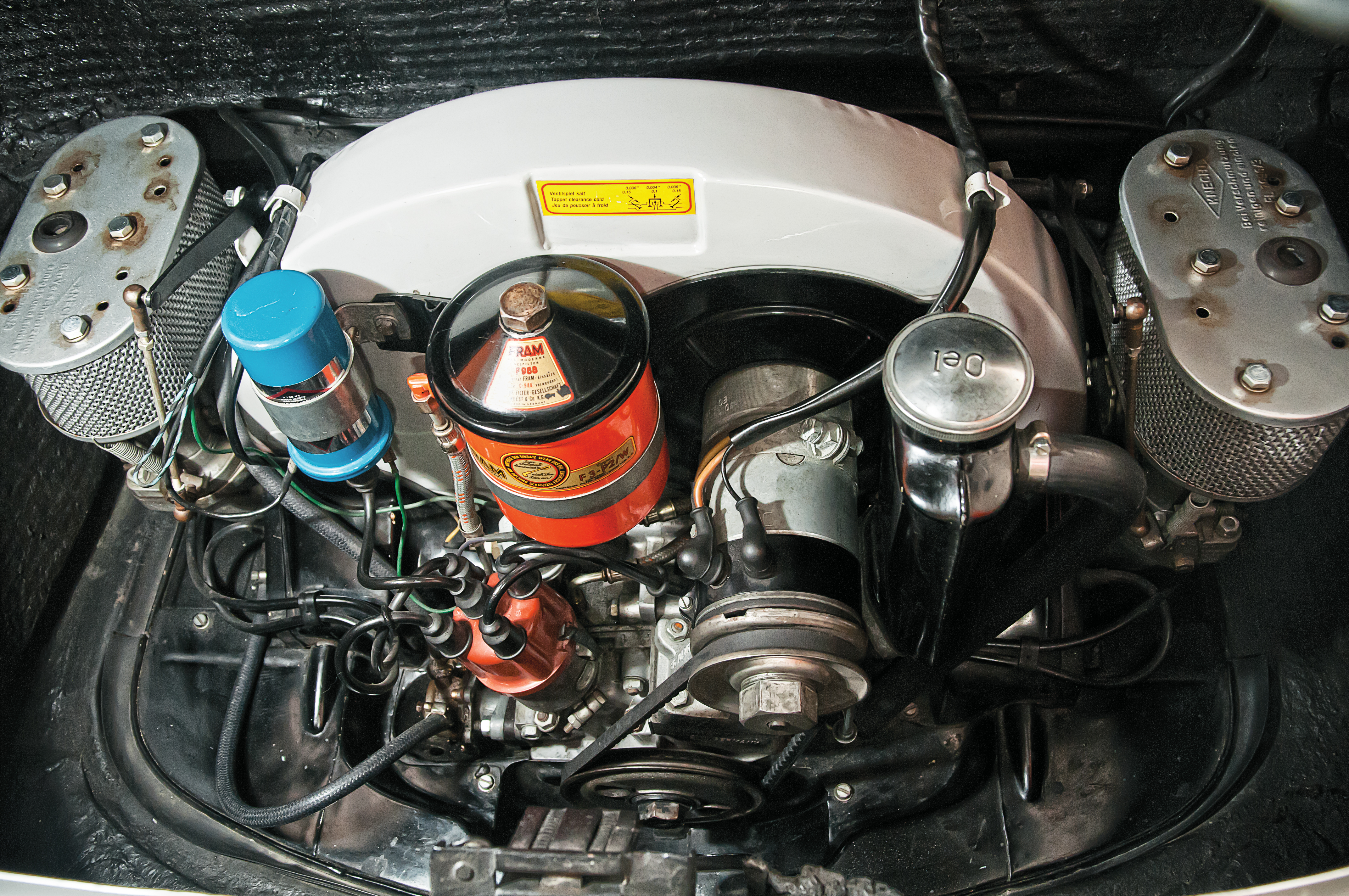 Porsche 356 boxer motor